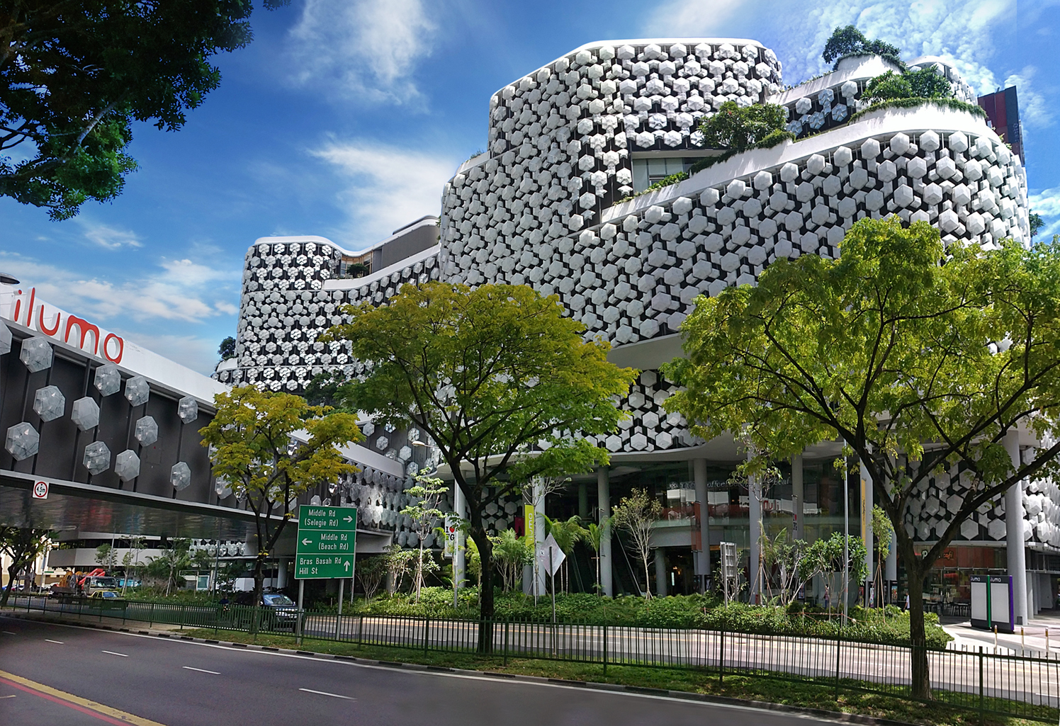 Bugis+, formerly Iluma is located within the Bugis district of Singapore and opened its doors on March 28, 2009. Designed by WOHA Architects, the facade of the mall plays with the theme of light and illumination, having high-tech features such as a light and media facade designed by WOHA in conjunction with Berlin-based media artists realities:united. The "crystal mesh" facade envelops the convex part of the building and brightly-lit billboards scatter across its flatter sides. (Manual stitching of three images taken using a Sony Ericsson Vivaz mobile phone.)